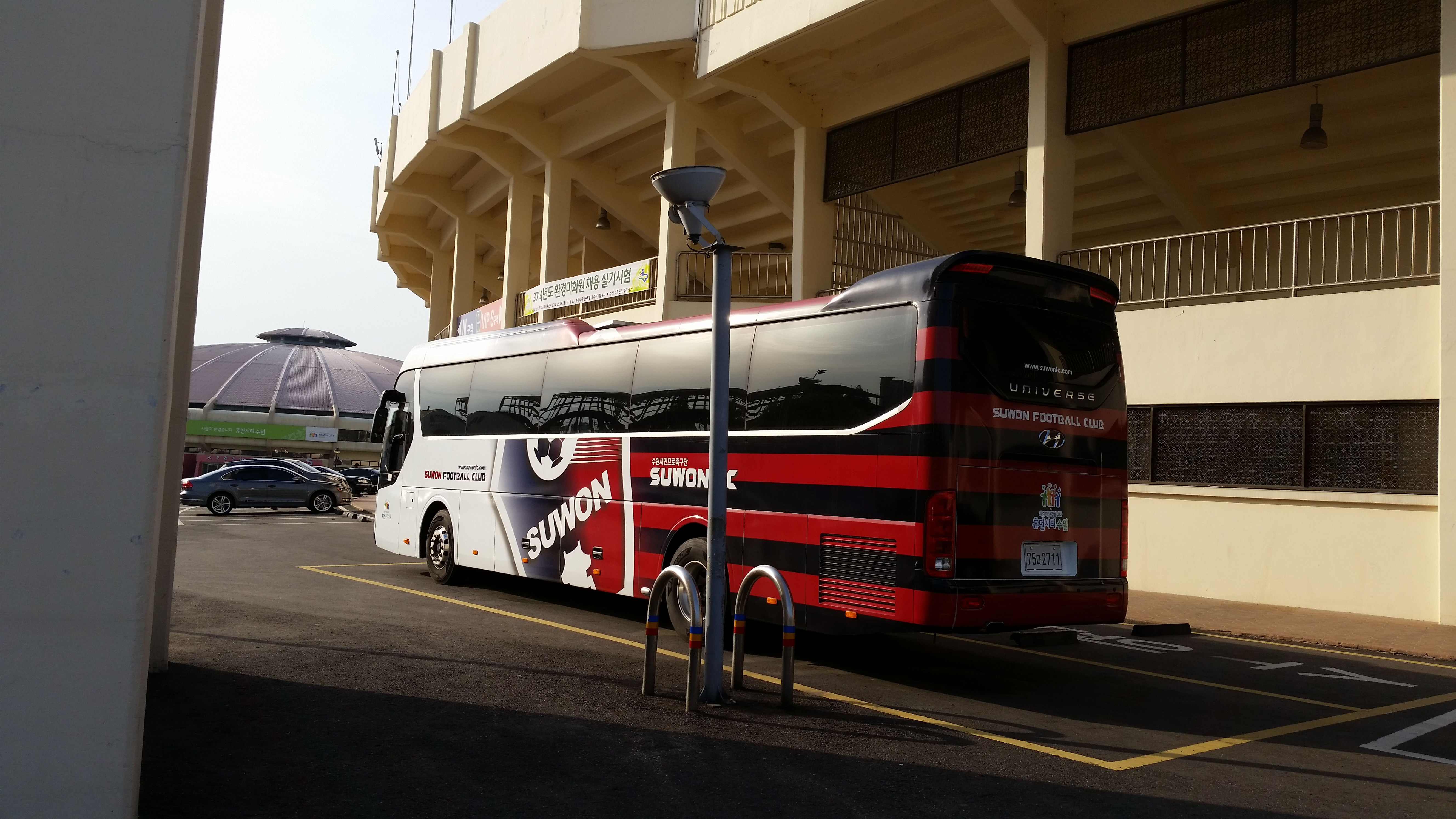 in Suwon Sports Complex